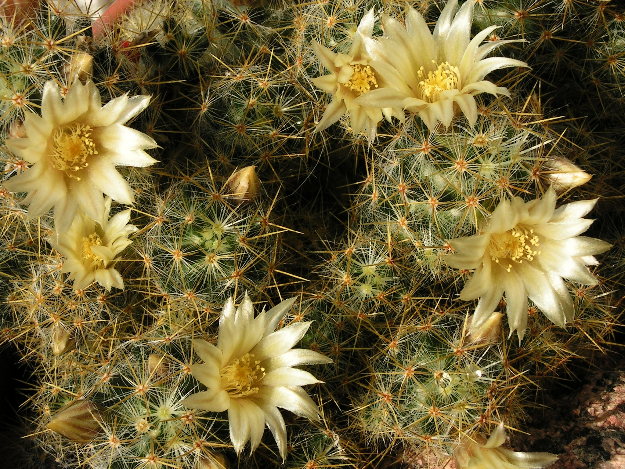 Flowering Mammillaria prolifera.